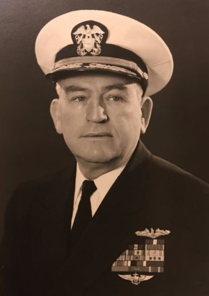 Bertram Joseph Rodgers (March 18, 1894 – November 30, 1983) was a highly decorated Vice Admiral in the United States Navy during World War II. He received his Navy Cross as a Captain of USS Salt Lake City in the battle of the Komandorski islands, during the Aleutian Islands Campaign. Rodgers later served as Commander, Amphibious Forces, Pacific Fleet, Commandant, 12th Naval District in San Francisco or Commander, U.S. Naval Forces Germany. He completed his career as President, Permanent General Court Martial in 1956.